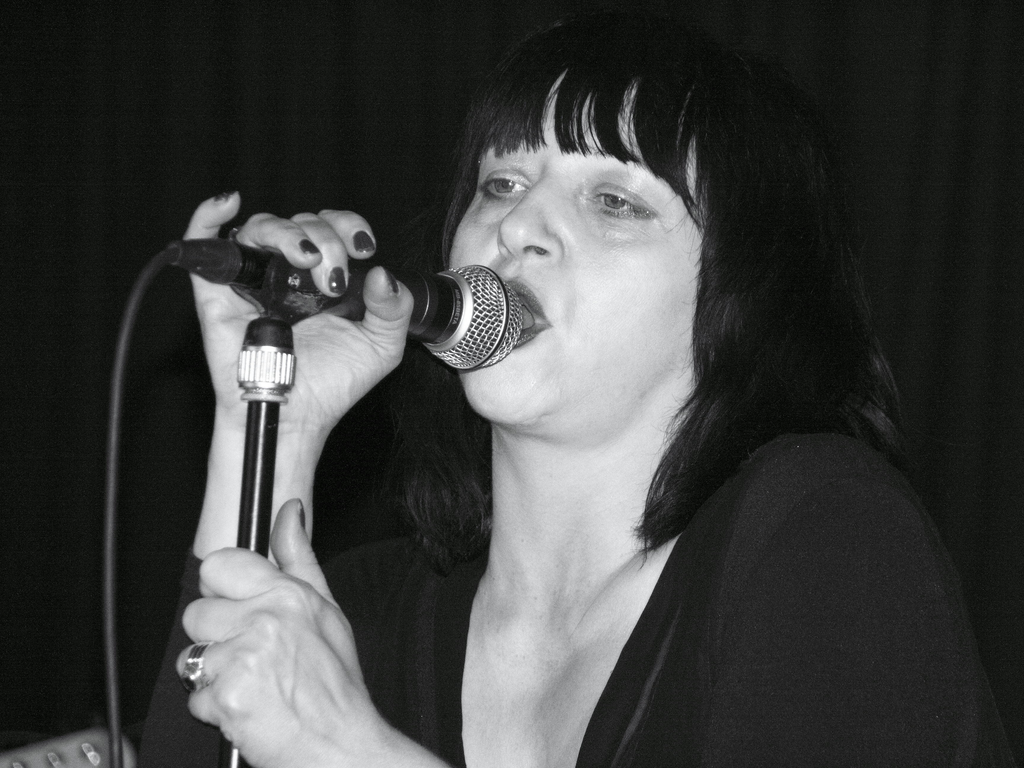 Lydia Lunch in concert with Gallon Drunk at Club w71, Weikersheim.